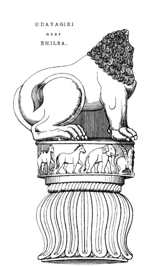 The broken lion capital found close to a square platform, near the Hindu caves at Udayagiri, Vidisha, Madhya Pradesh. The site shows signs of damage. The ancient artifact and its links to Surya tradition of Hinduism has been described by Dass and Willis in a 2002 journal paper: The image is a photograph of Plate Print XXX of the source, and PD-Art-100-70 with Creative Commons 4.0 license apply.